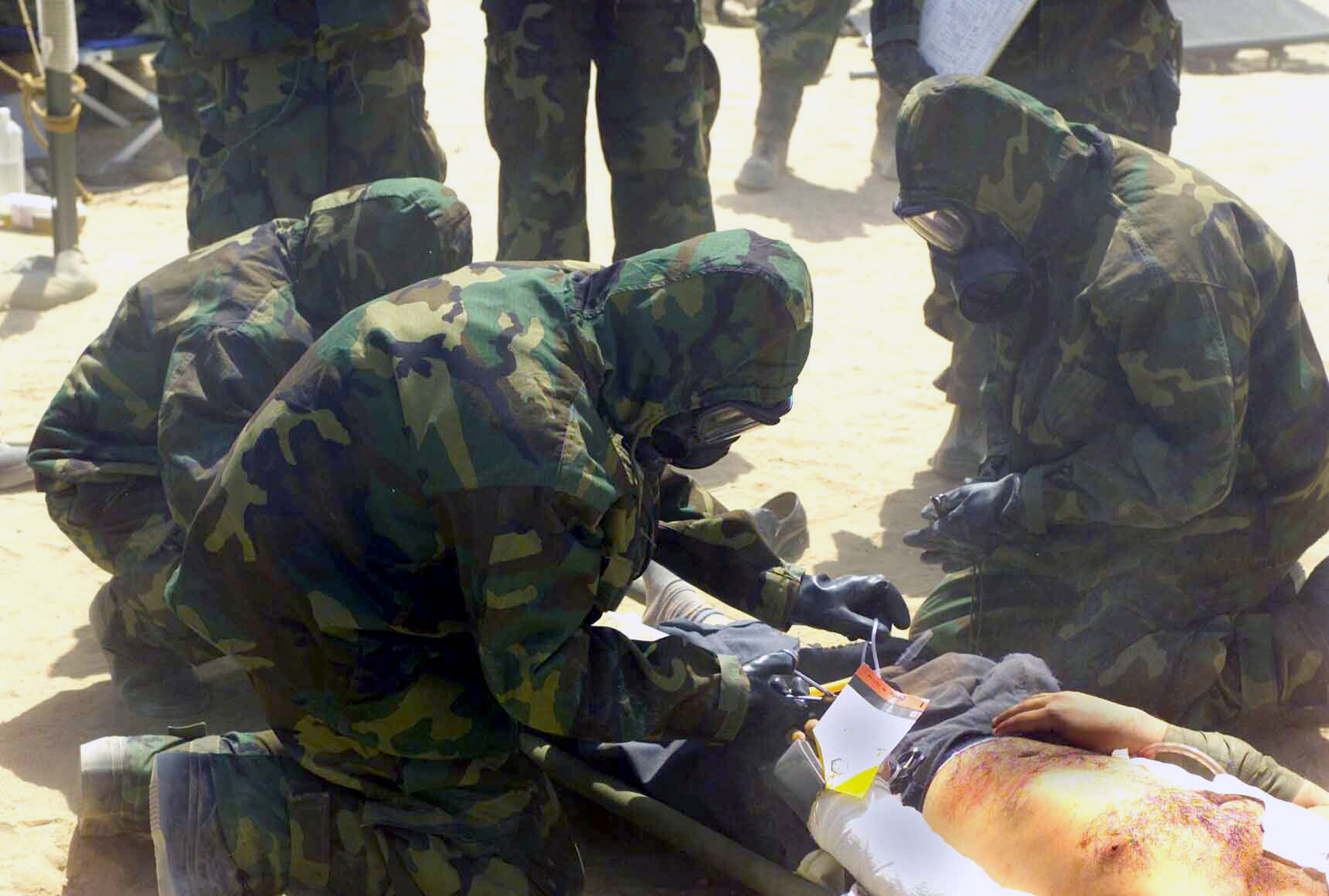 Logistics Support Area Viper, 1st FSSG Forward, Iraq (Mar. 29, 2003) -- U.S. Navy Hospital Corpsmen treats a wounded Enemy Prisoner of War (EPW) after a chemical attack alert sounded. The Corpsmen are assigned to Charlie Surgical Support Company, Health Services Battalion (HSB), working in Mission Oriented Protection Posture (MOPP) level 4. Charlie Surgical Support Company HSP is deployed conducting missions in support of Operation Iraqi Freedom. Operation Iraqi Freedom is the multi-national coalition effort to liberate the Iraqi people, eliminate Iraqi's weapons of mass destruction and end the regime of Saddam Hussein Iraq. U.S. Marine Corps photo by Master Sgt Edward D. Kniery. (RELEASED)